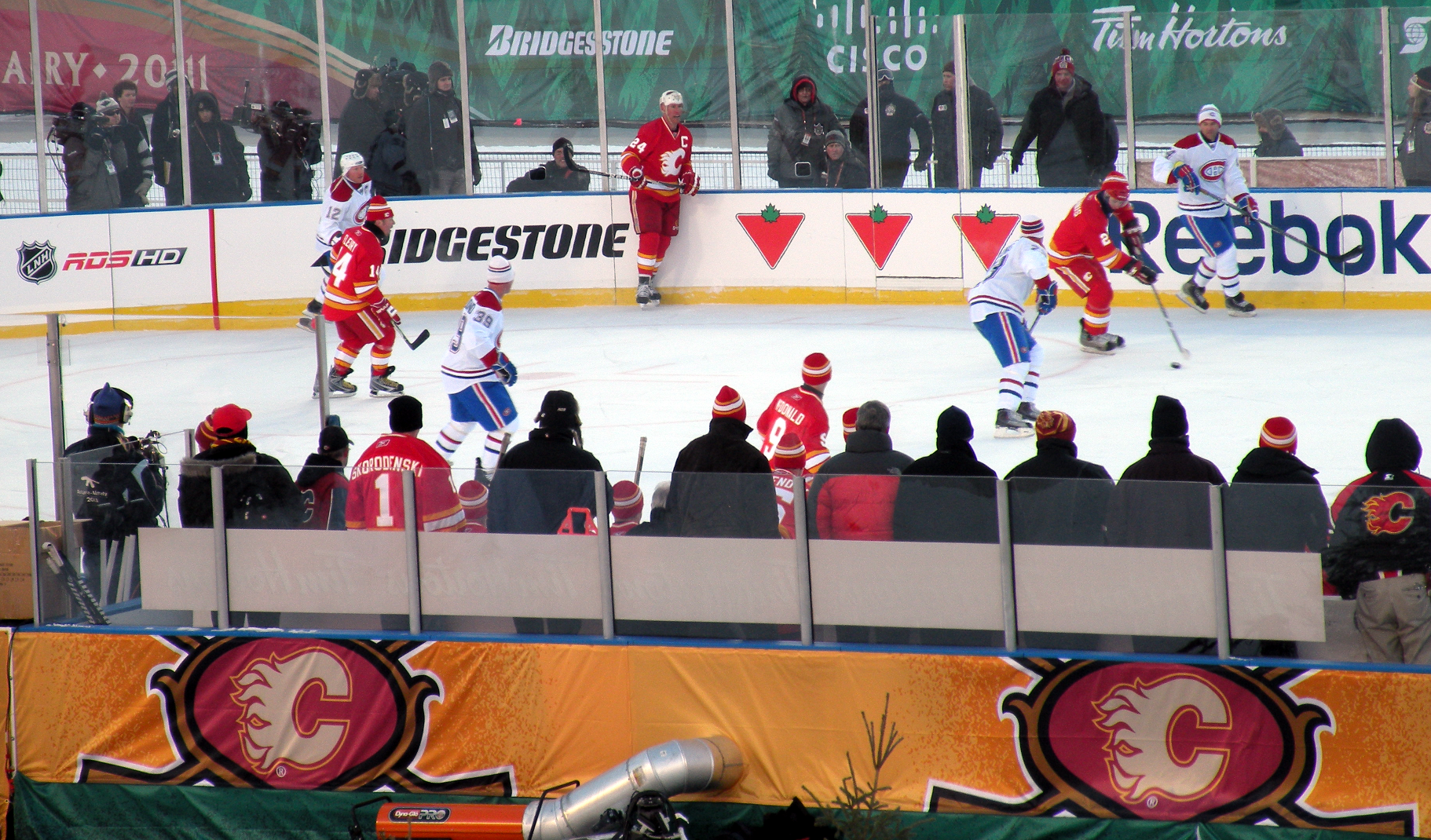 The Calgary Flames and Montreal Canadiens alumni teams battle during the en:2011 Heritage Classic in Calgary.